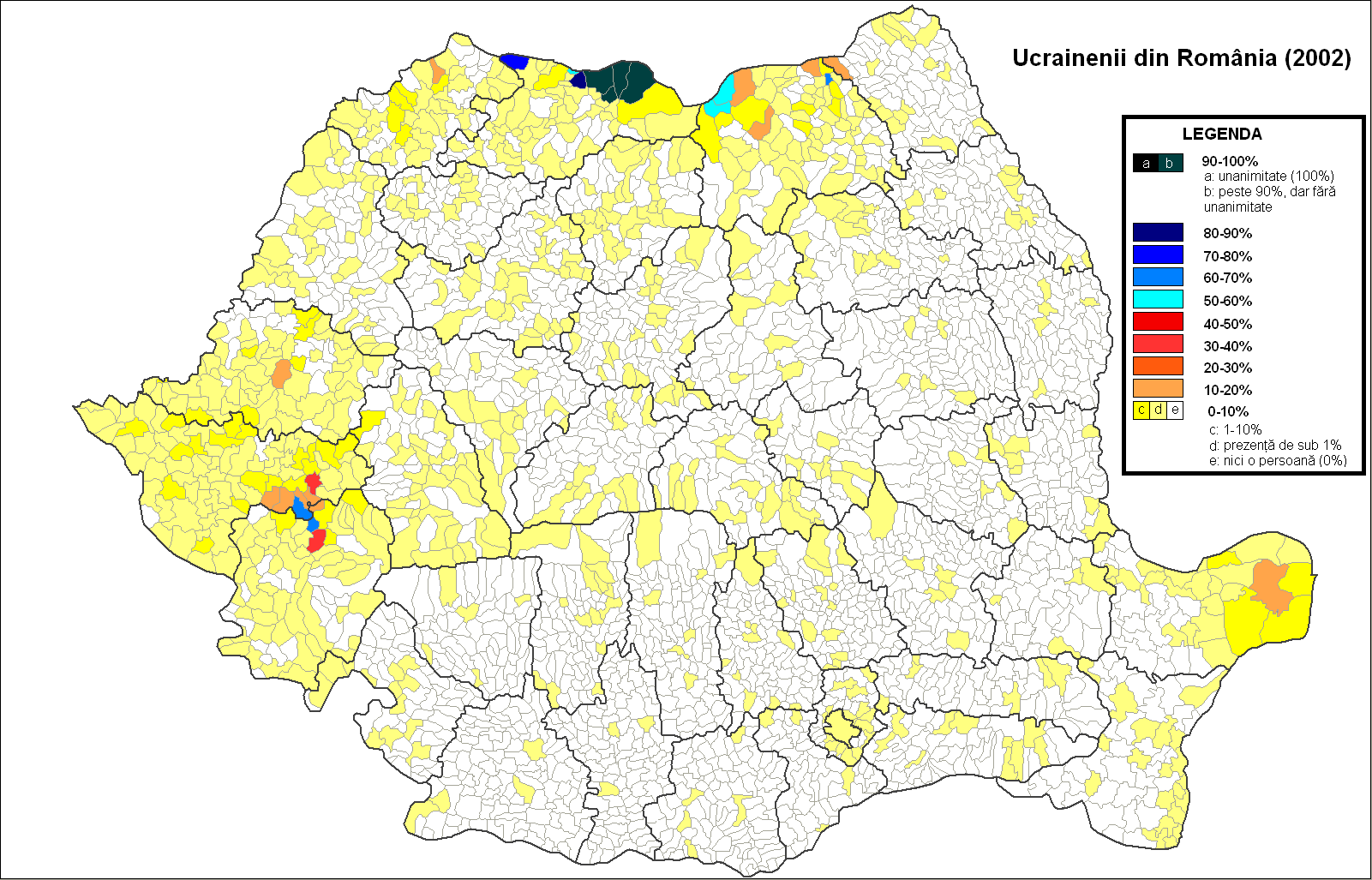 The distribution of the Ukrainians in Romania (census 2002)